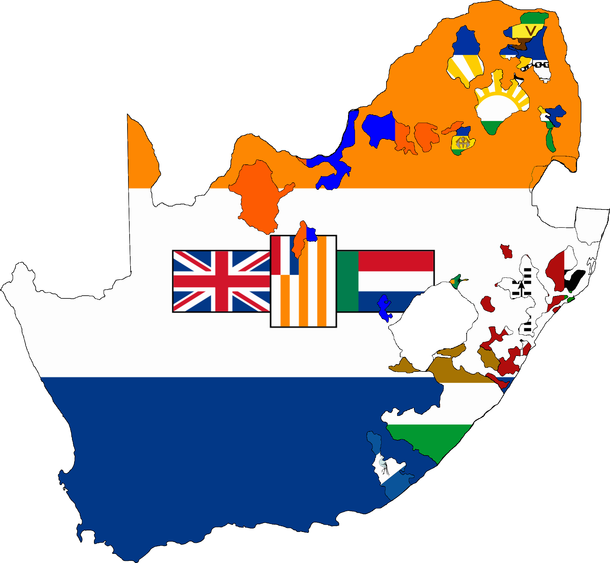 Flag map of South Africa 1928-1994 (Bantustan Homelands)